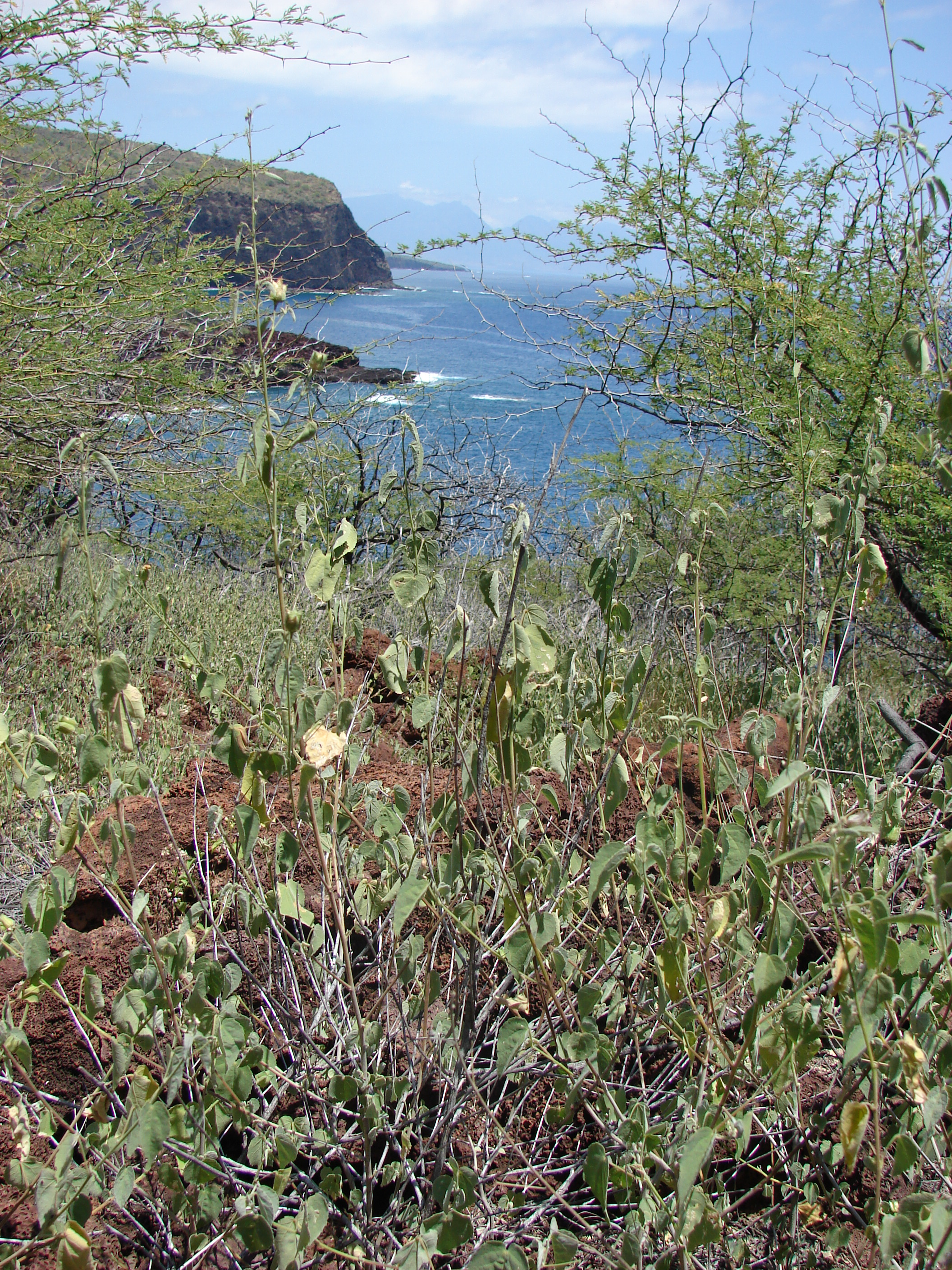 Abutilon incanum (habit). Location: Lanai, Puu Pehe Cove